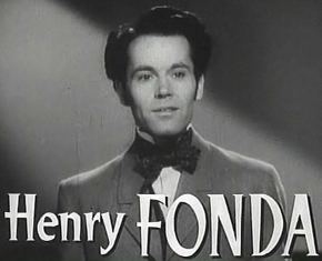 Cropped screenshot of Henry Fonda from the trailer for the film Jezebel.